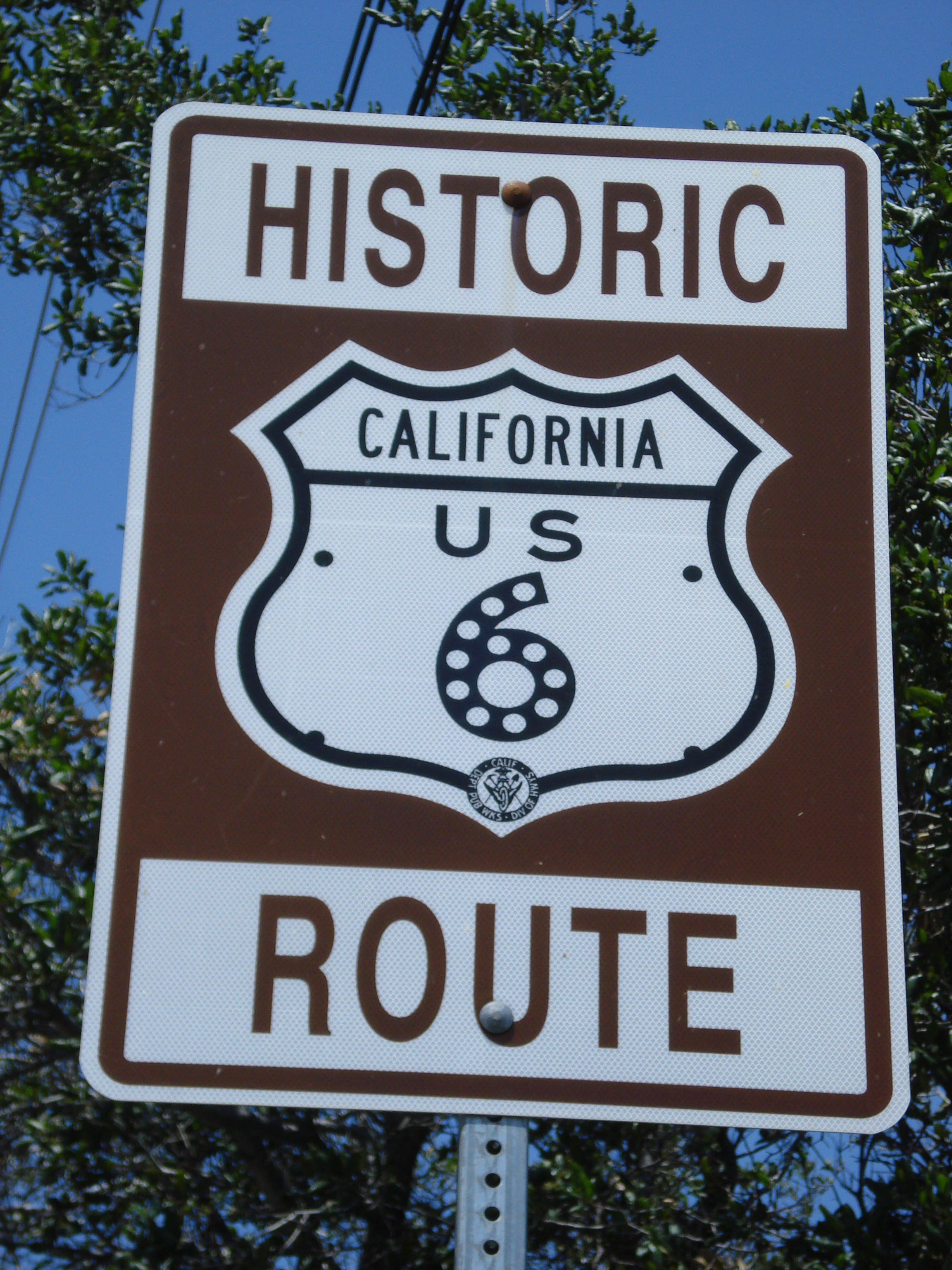 road sign that reads "Historic Route California US 6" with brown background